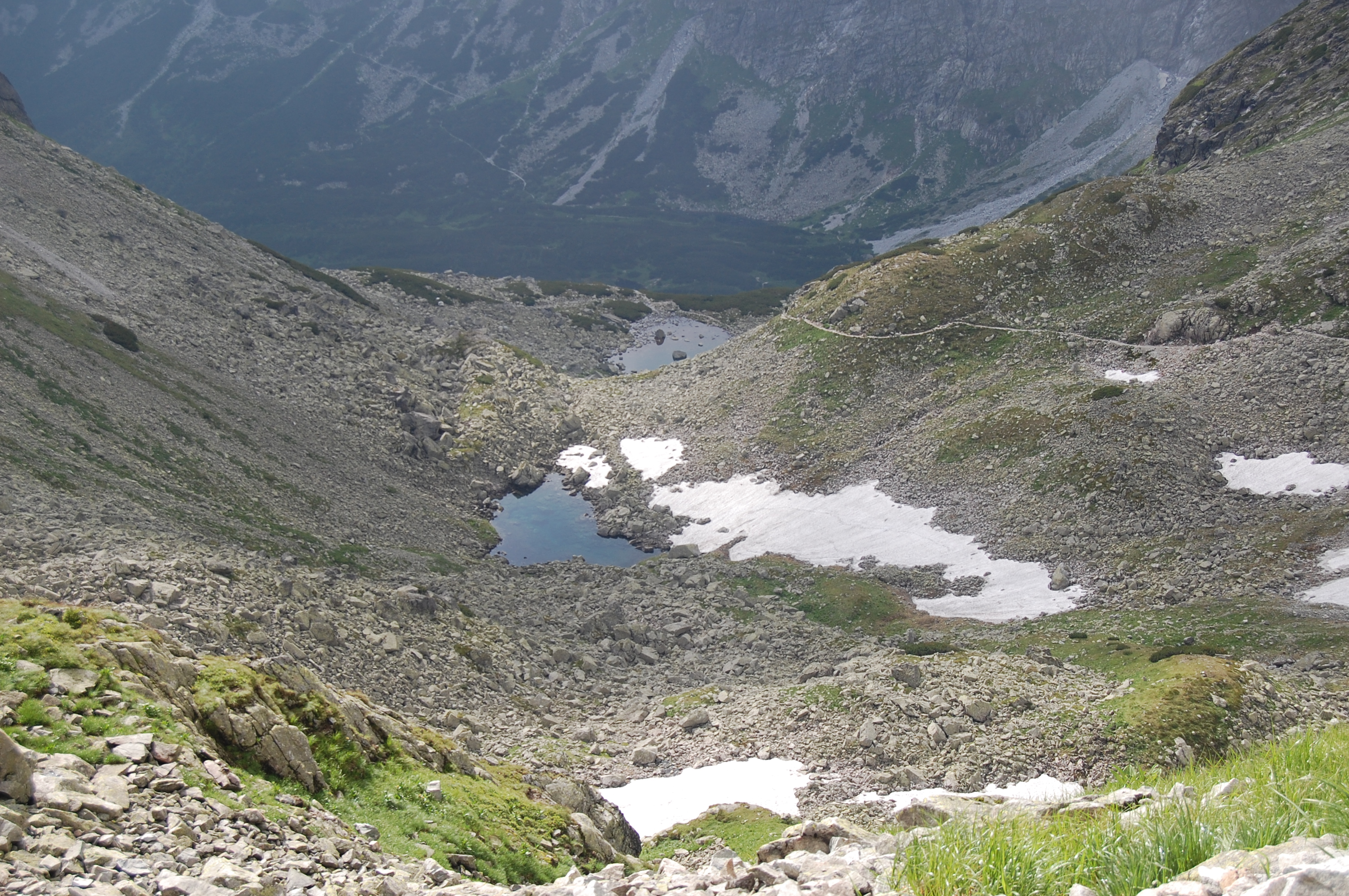 Červená dolina valley part of dolina Zeleného plesa valley, High Tatras, Slovakia.